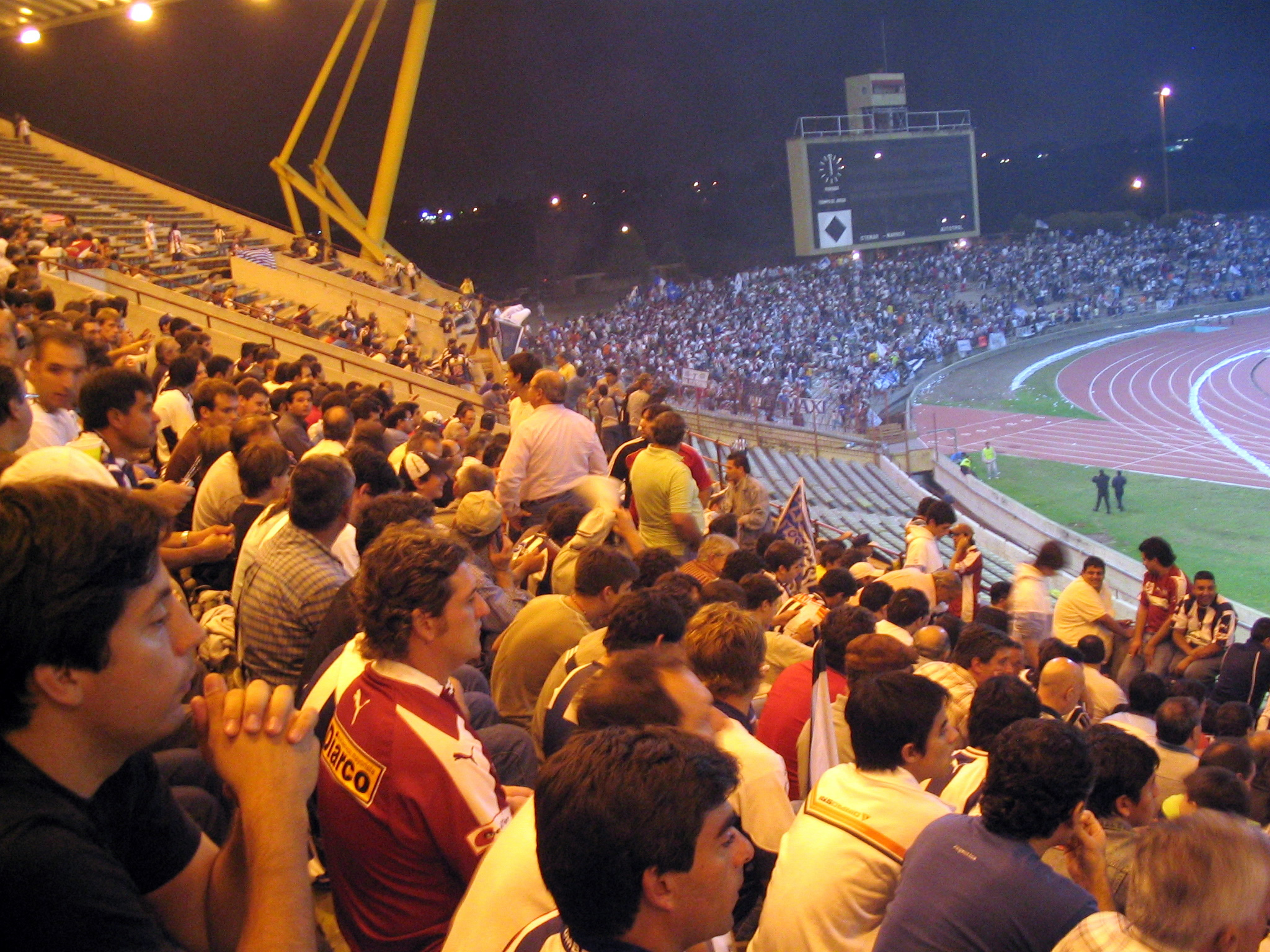 A crowd waiting for the match in the Cordoba Stadium